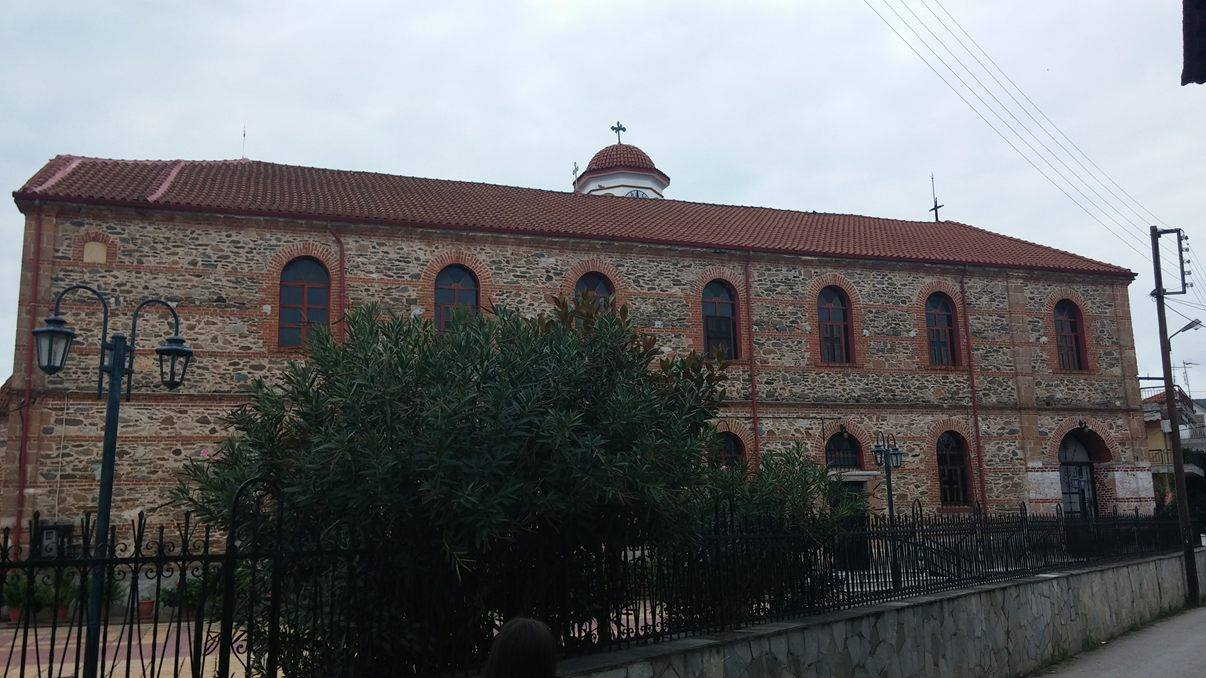 Zagiveri Saint George Church